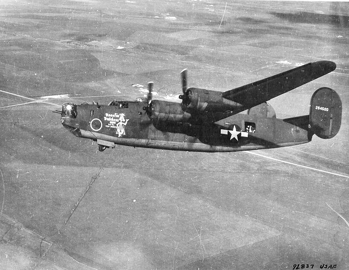 "Dazzlin' Dutchess and the Ten Dukes" B-24H-10-CF Liberator s/n 42-64500 743rd Bombardment Squadron, 455th Bombardment Group, 15th Air Force. 21 April 1944